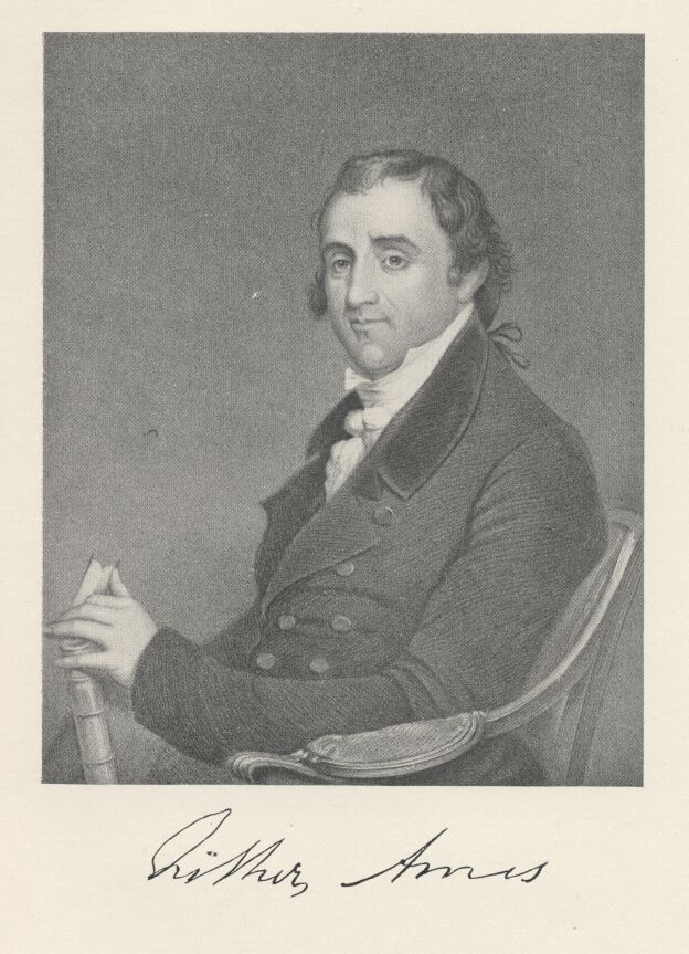 Fisher Ames - Project Gutenberg eText 15391 From